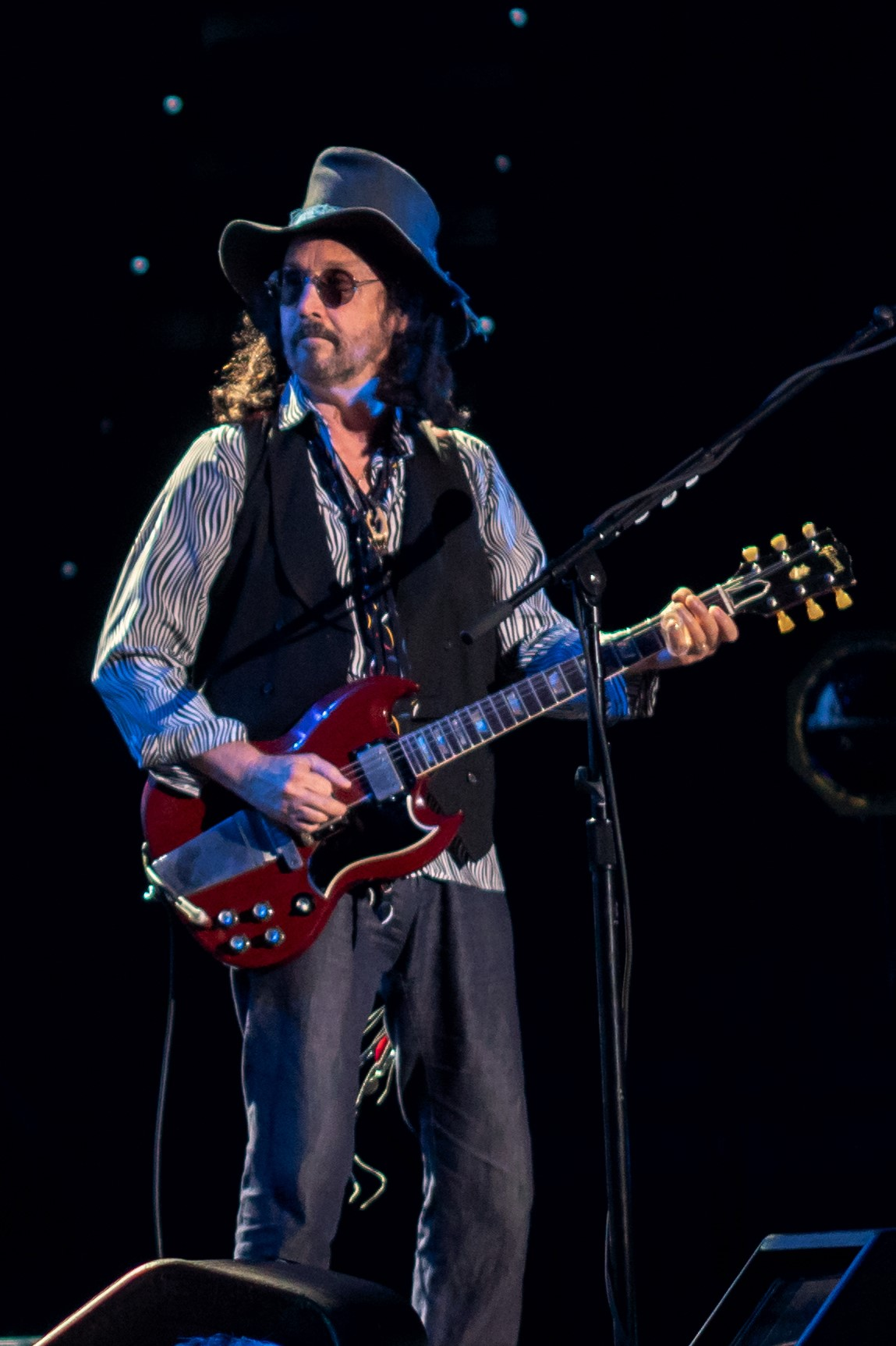 A cropped version of File:FleetMacTulsa031018-37 (31359879158).jpg